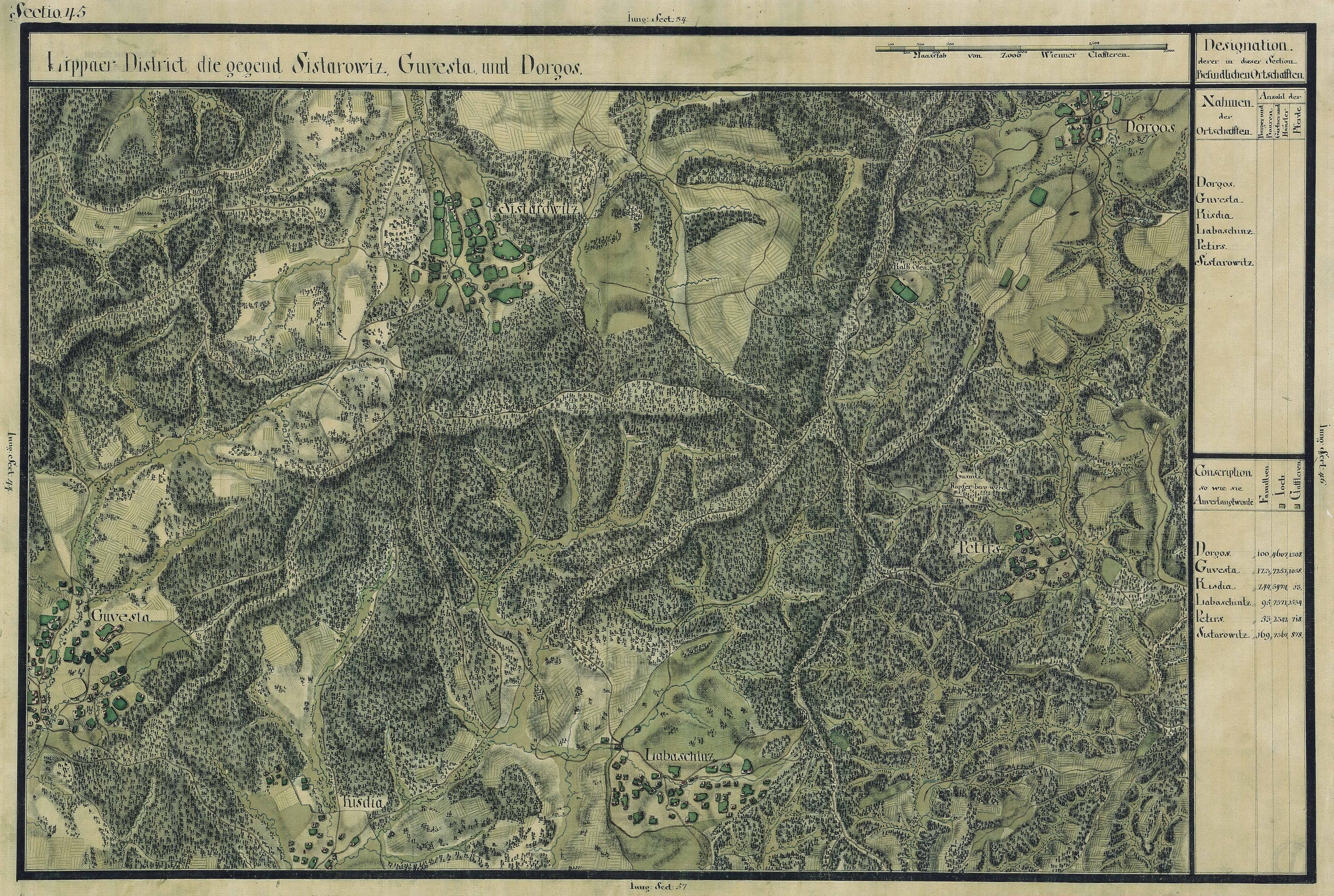 The Banat region in the cadastral maps: Josephinische Landesaufnahme, 1769-72. Josephinische Landaufnahme pg045